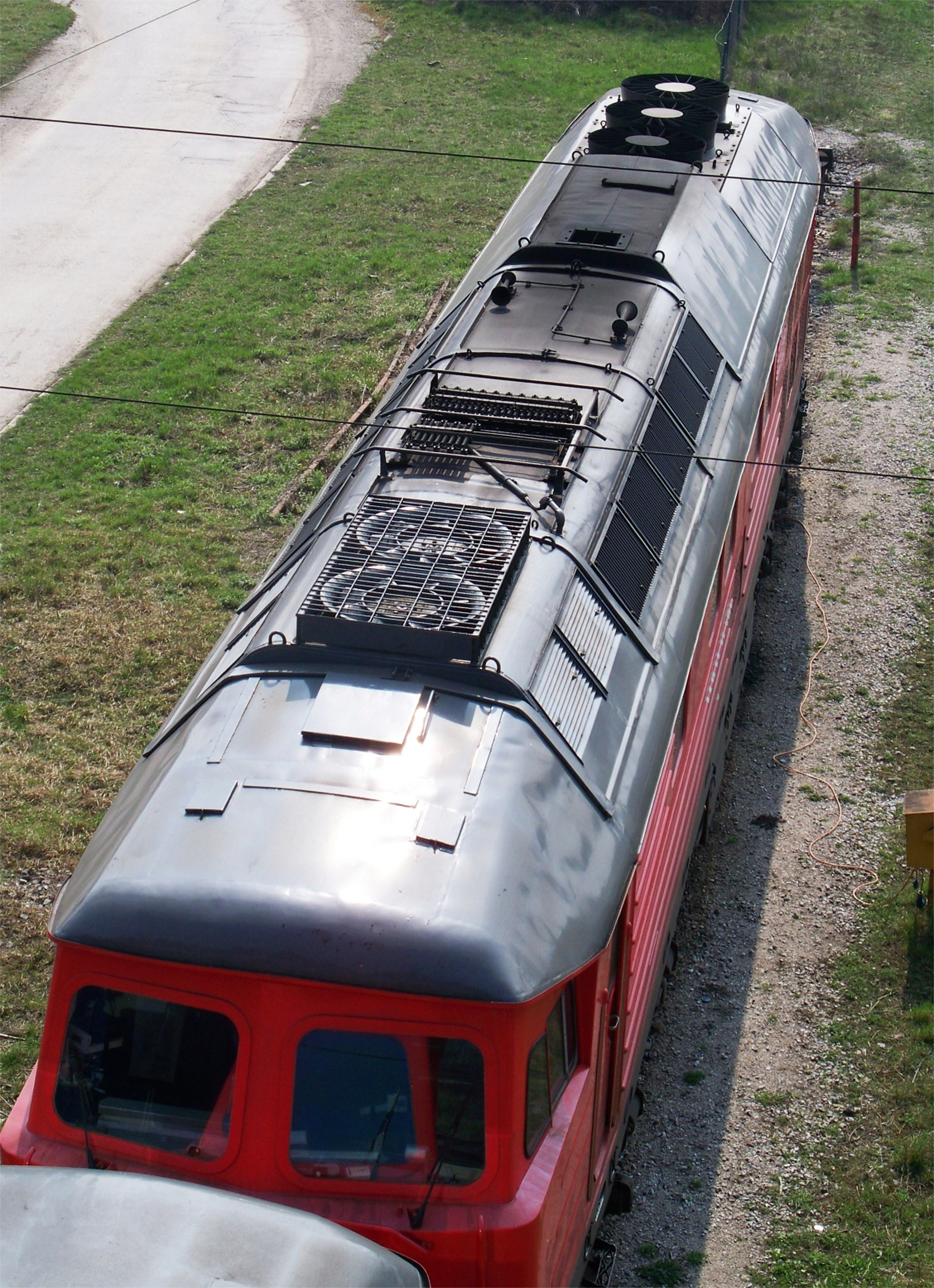 A railway locomotive of the DR Class 232 from above.